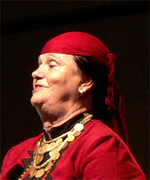 Valya Balkanska - Bulgarian folk music singer from the Rhodope Mountains known for singing the song Izlel e Delyu Haydutin, part of the Voyager Golden Record selection of music included in the two Voyager spacecraft launched in 1977.